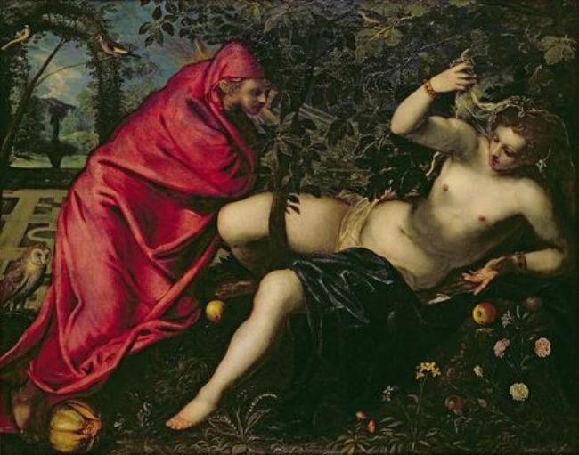 Angelica and the hermit